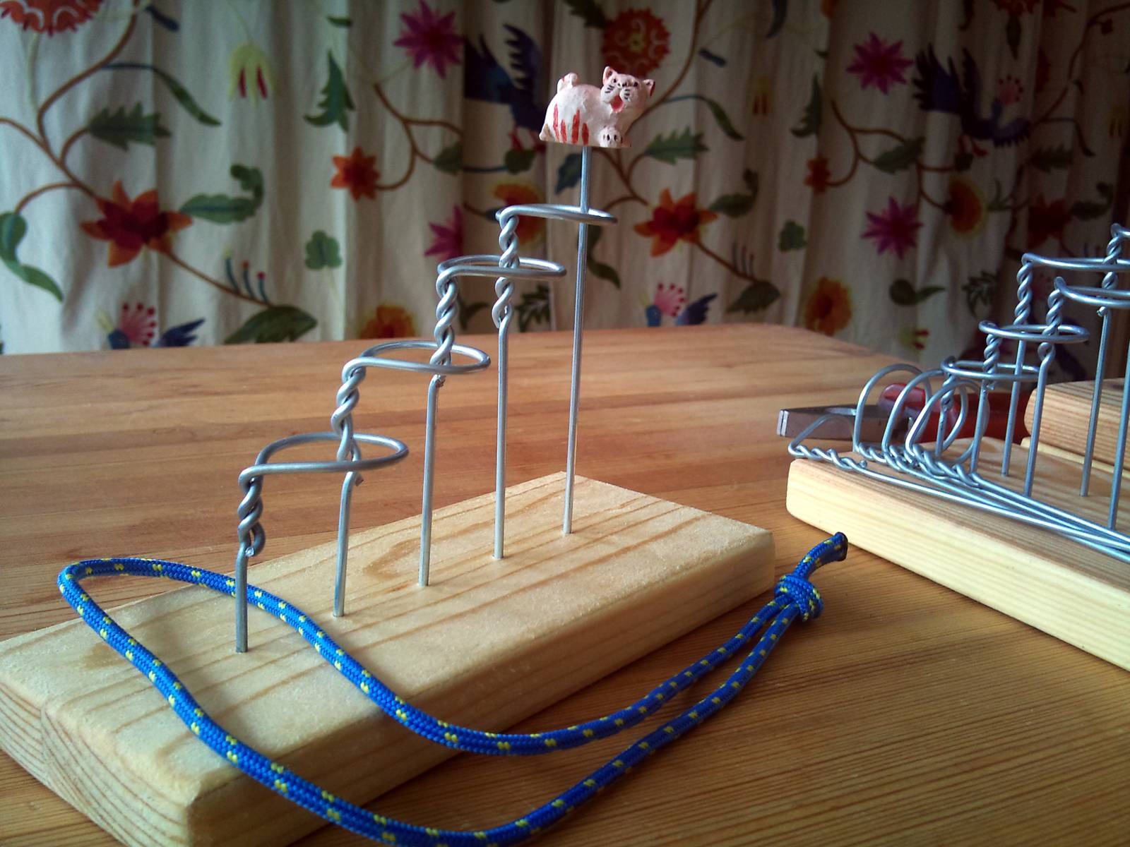 Assembling a Staircase Puzzle step by step. The disentanglement puzzle (here: Five Pillars Puzzle or Baguenaudier) can additionally be personalized by placing an individual object on top of the highest free standing pole.